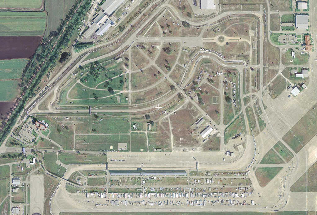 Sebring Raceway image from NASA World Wind